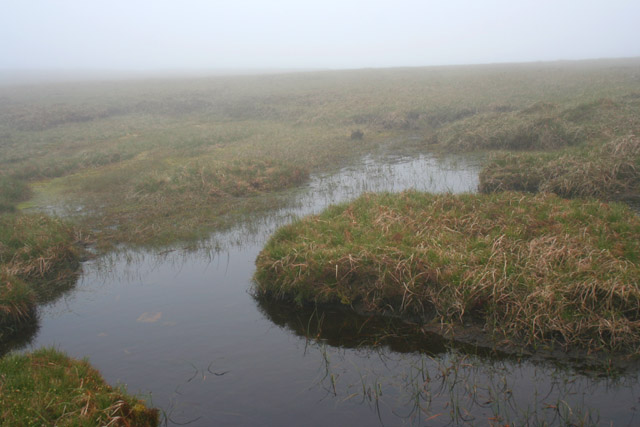 Peat haggs on Mangerton summit plain The summit of Mangerton Mountain (An Mhangharta; 839m) is an extensive plain of peat haggs above the 825m contour. This view shows one of the many tiny lochans around 100m west of a prominent cairn